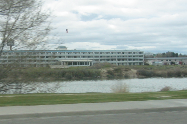 Snake River in Idaho Falls